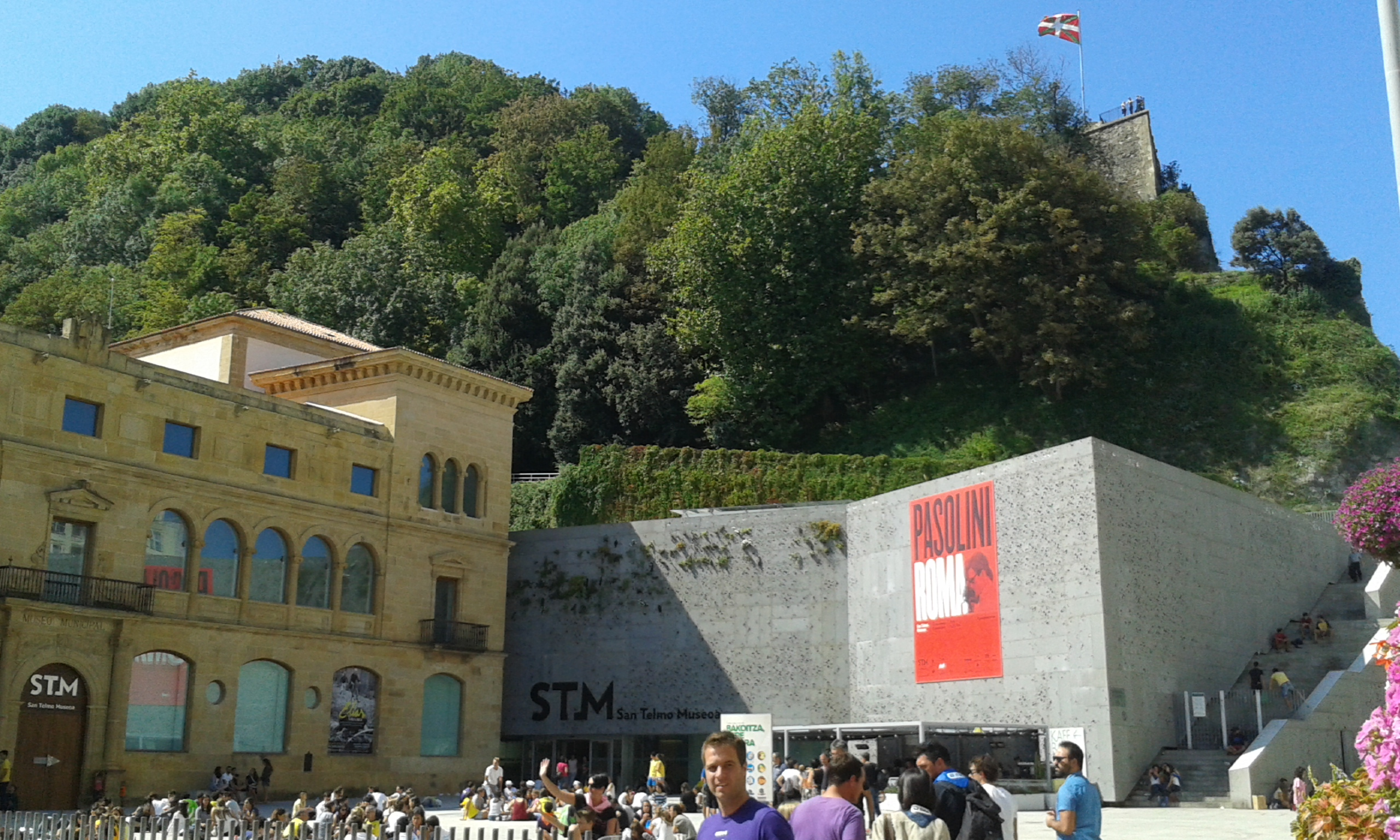 Front of San Telmo Museoa during a local celebration, Donostia-San Sebastián